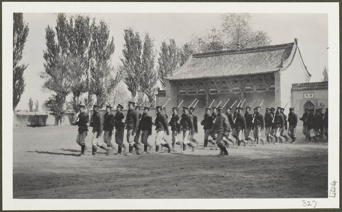 yan shikai new army